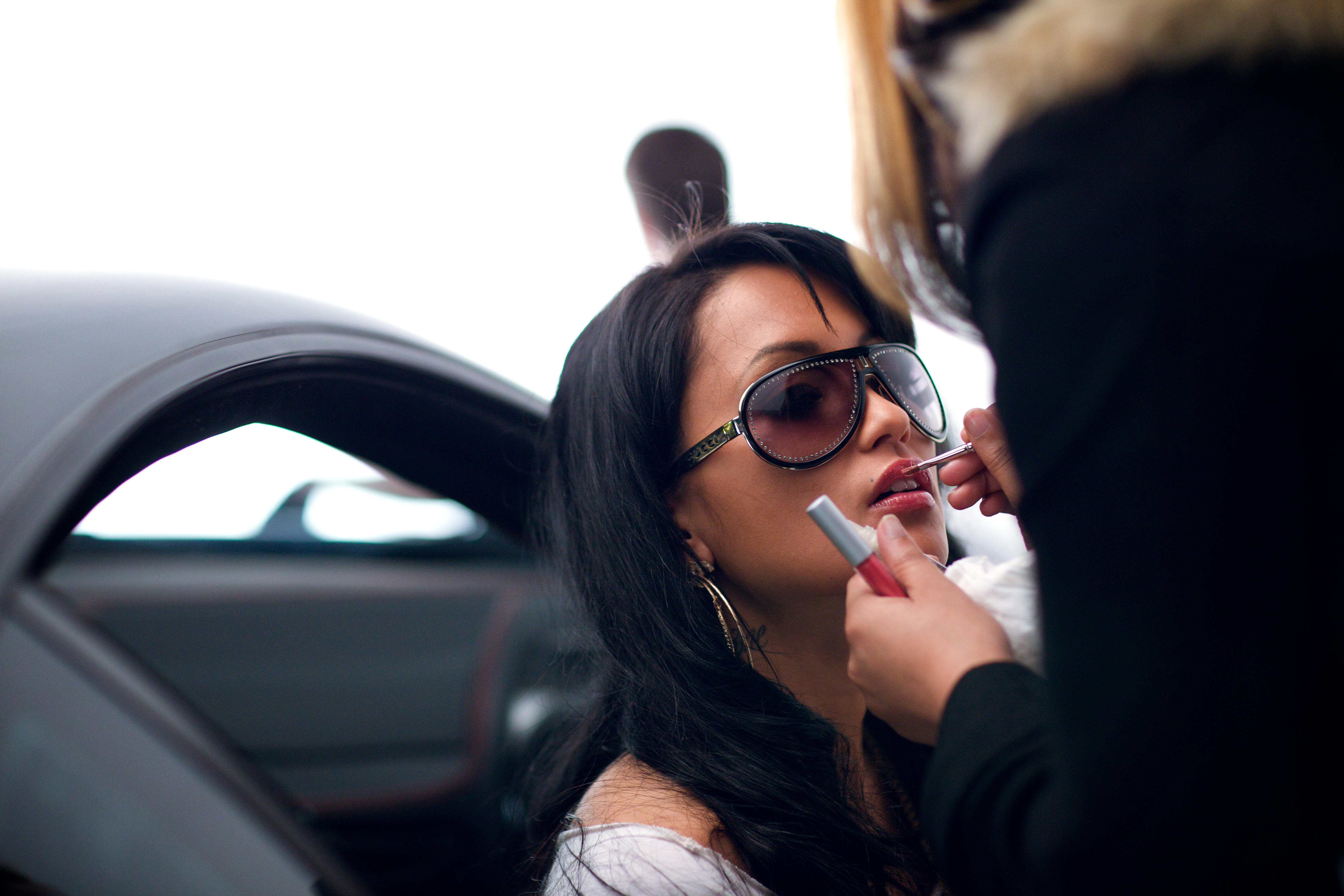 Behind-the-Scenes for the "I'm Ballin" music video by Big Rich Directed by: Rock Jacobs 1st Assistant Director: Hayves Streeter Jr. Producer/Editor: Gio Hidalgo a Rush Films Project Make-up by Danielle Banks Shot with a Canon 5D Mark II and EF 85mm f/1.2L II